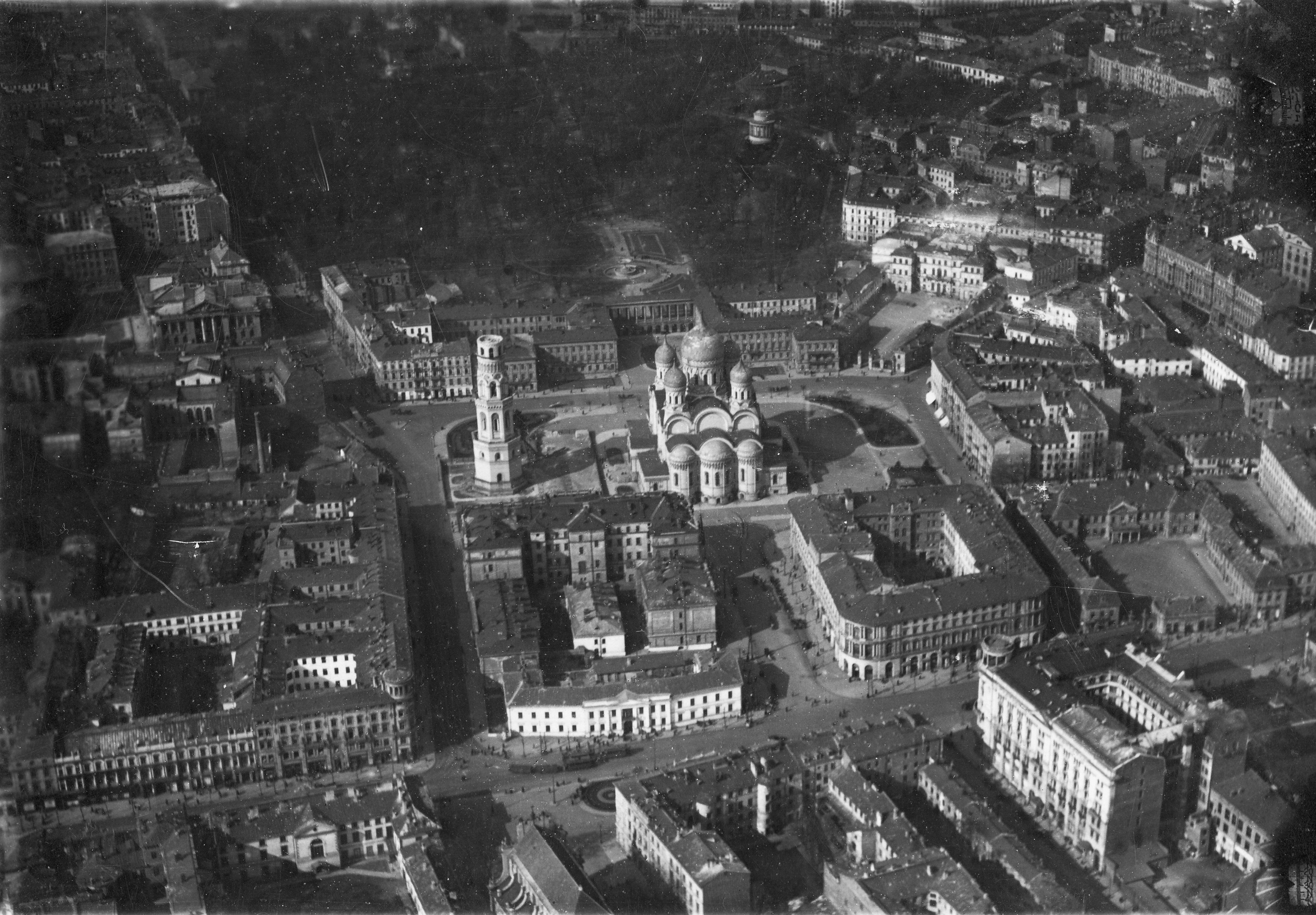 Arial Photo of Warsaw in early 1920's. Visible in the center of the photo is Saxon Square with Alexander Nevsky Cathedral in the middle behind the cathedral one can see Saxon Palace and the dark region in the top center of the image is Saxon Garden, with round water tower visible. To the right of Saxon Palace on diagonal to the grid one can see Brühl Palace. To the left of Saxon Palace on other side of Królewska St. one can see Gmach Zachęty. The intersection in the lower-left quadrant is Królewska St. (vertical) and Krakowskie Przedmieście (horizontal). At that intersection one can see Kościół Wizytek, than moving to the right along Krakowskie Przedmieście street one can see Hotel Europejski, Hotel Bristol and Pałac Potockich.